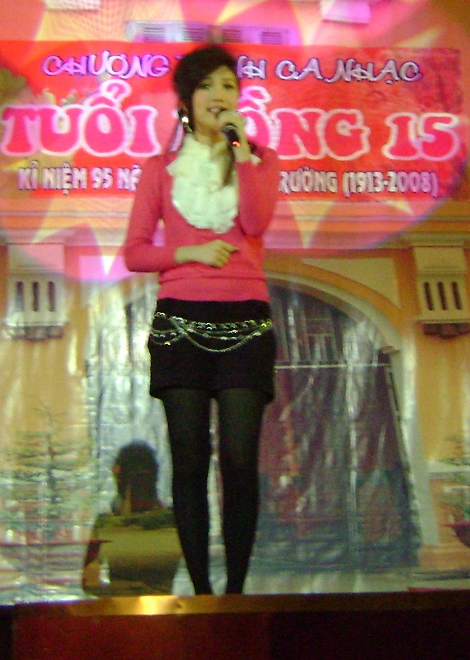 A shot was taken in Tuổi hồng 15, which was held to raise fund for the poor by Minh Khai senior high school, Vietnam. It's about Bảo Thy, a Vietnamese teen sensation.